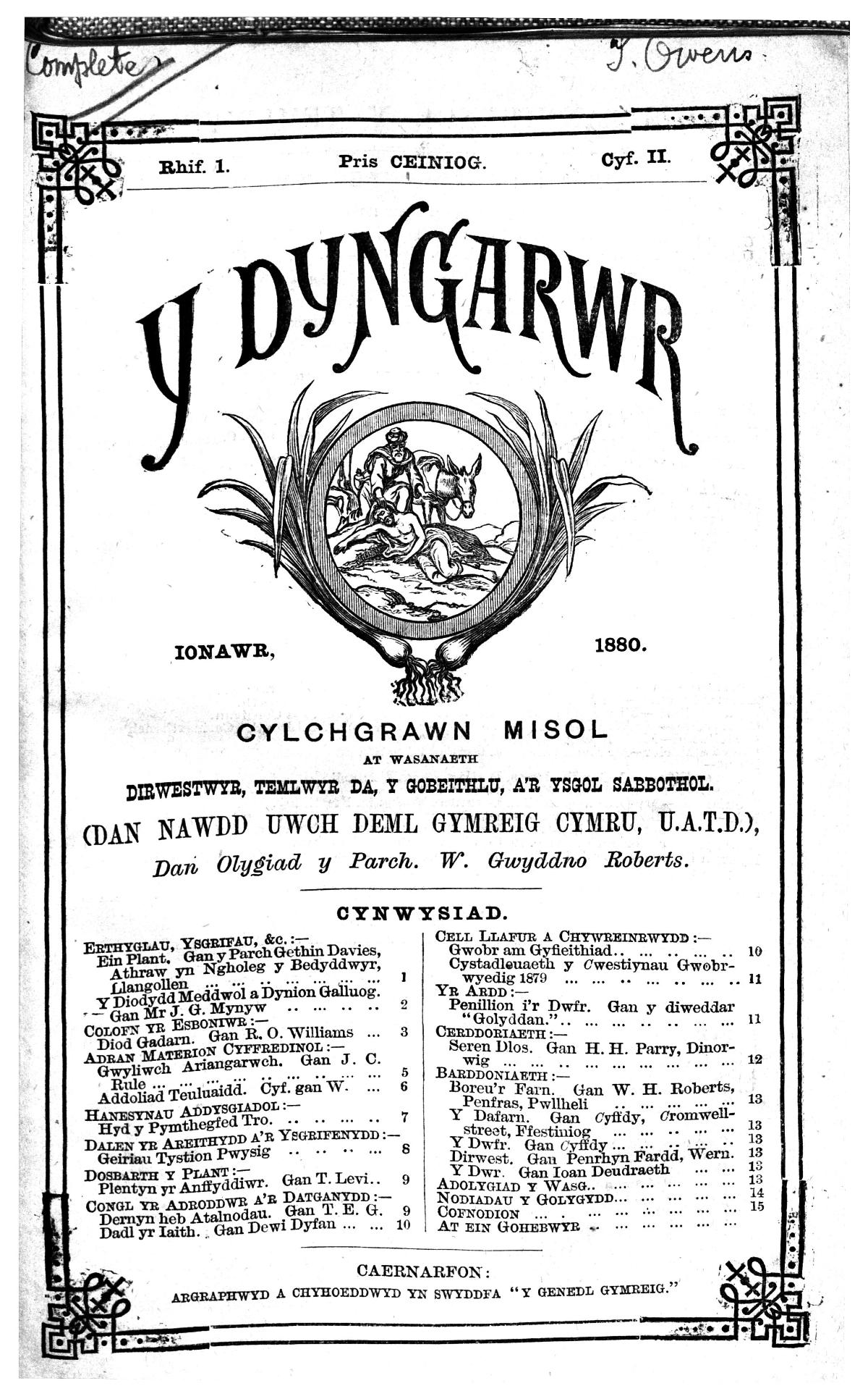 A quarterly Welsh language religious periodical serving the temperance movement, the Band of Hope and the Sunday schools. The periodical's main contents were articles on temperance, religious articles and articles for children, alongside musical compositions, reviews and poetry. The periodical was edited by William Gwyddno Roberts until May 1880, by William Jones until April 1887 and subsequently by John Evans Owen.